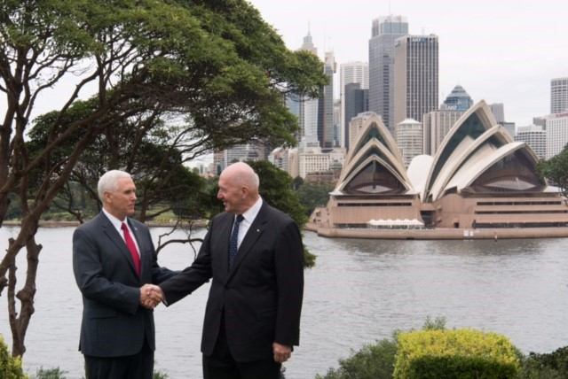 Mike Pence and Peter Cosgrove, in front of the Opera House in Sydney.